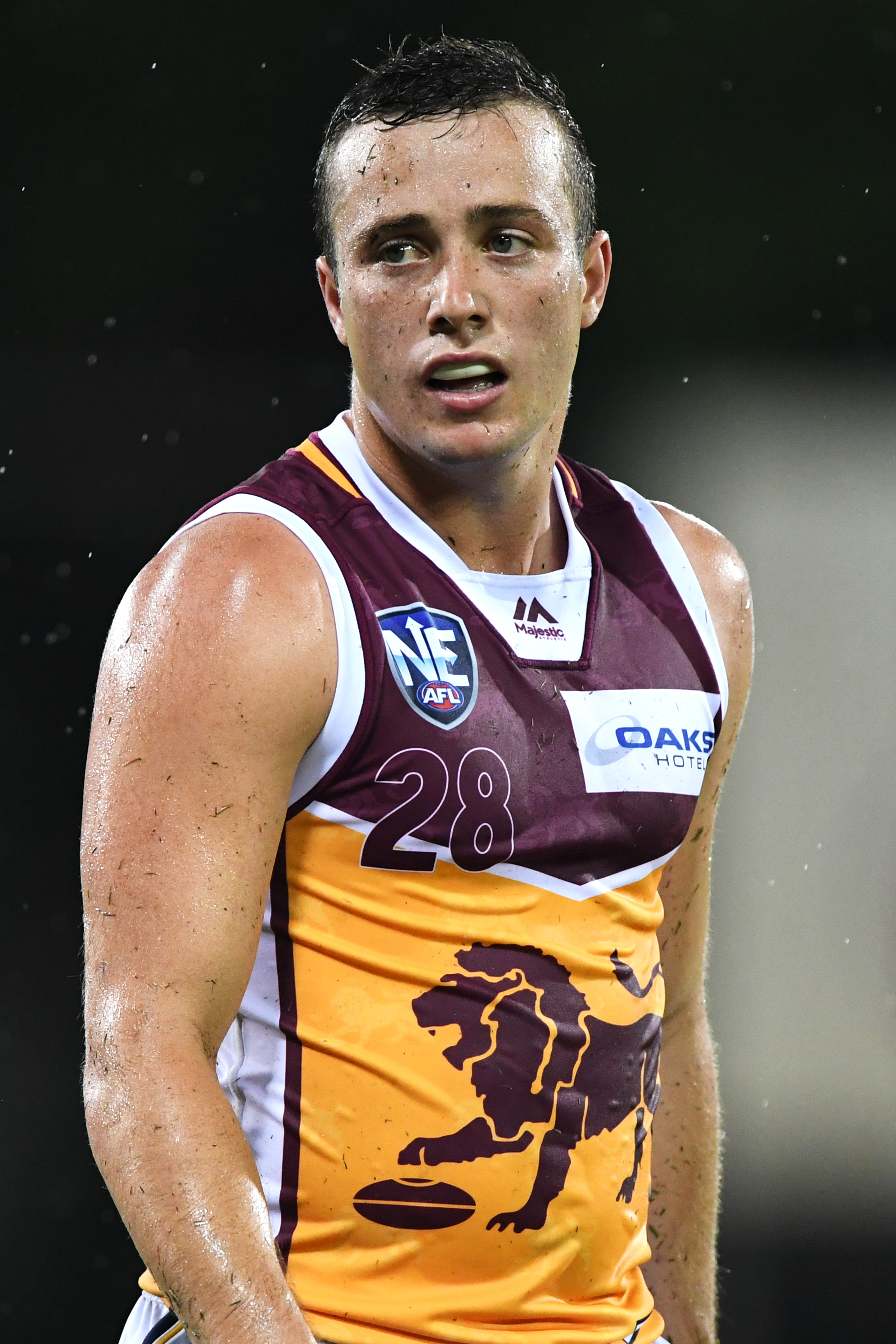 Lewis Taylor of the Brisbane Lions during the NEAFL round one match between NT Thunder and Brisbane Lions at TIO Stadium on 6 April 2019 in Darwin, Australia.